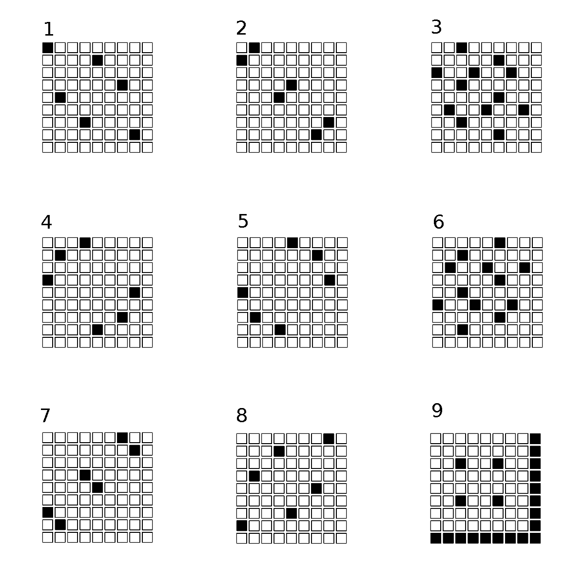 Distinct shapes formed by highlighting respective numbers in a Vedic Square. Created using the following Maple code, run on Maple 13: # Load Packages # with(LinearAlgebra):with(plots): # Set up procedure for Digital Root # DigRot := proc(n) description "base 10 digital root"; if irem(n,9) = 0 then return 9 else return irem(n,9); end if; end proc; # Generate Vedic Square # VS := Matrix(9): for i from 1 to 9 do for j from 1 to 9 do VS(i,j) := DigRot(i*j); end do: end do: VS; # Create Matrix for highlighted plot HighVS := proc(M::Matrix,n::integer) local i,j,tempM; tempM := Matrix(9): for i from 1 to 9 do for j from 1 to 9 do if M(i,j)=n then tempM(i,j):=0 else tempM(i,j) := 1 end if; end do: end do: tempM; end proc; # Highlighted Plots # for k from 1 to 9 do: k; matrixplot(HighVS(VS,k),heights=histogram,orientation=[0,0],axes=none,labels=["","",""],gap=0.2,shading=zgrayscale); end do